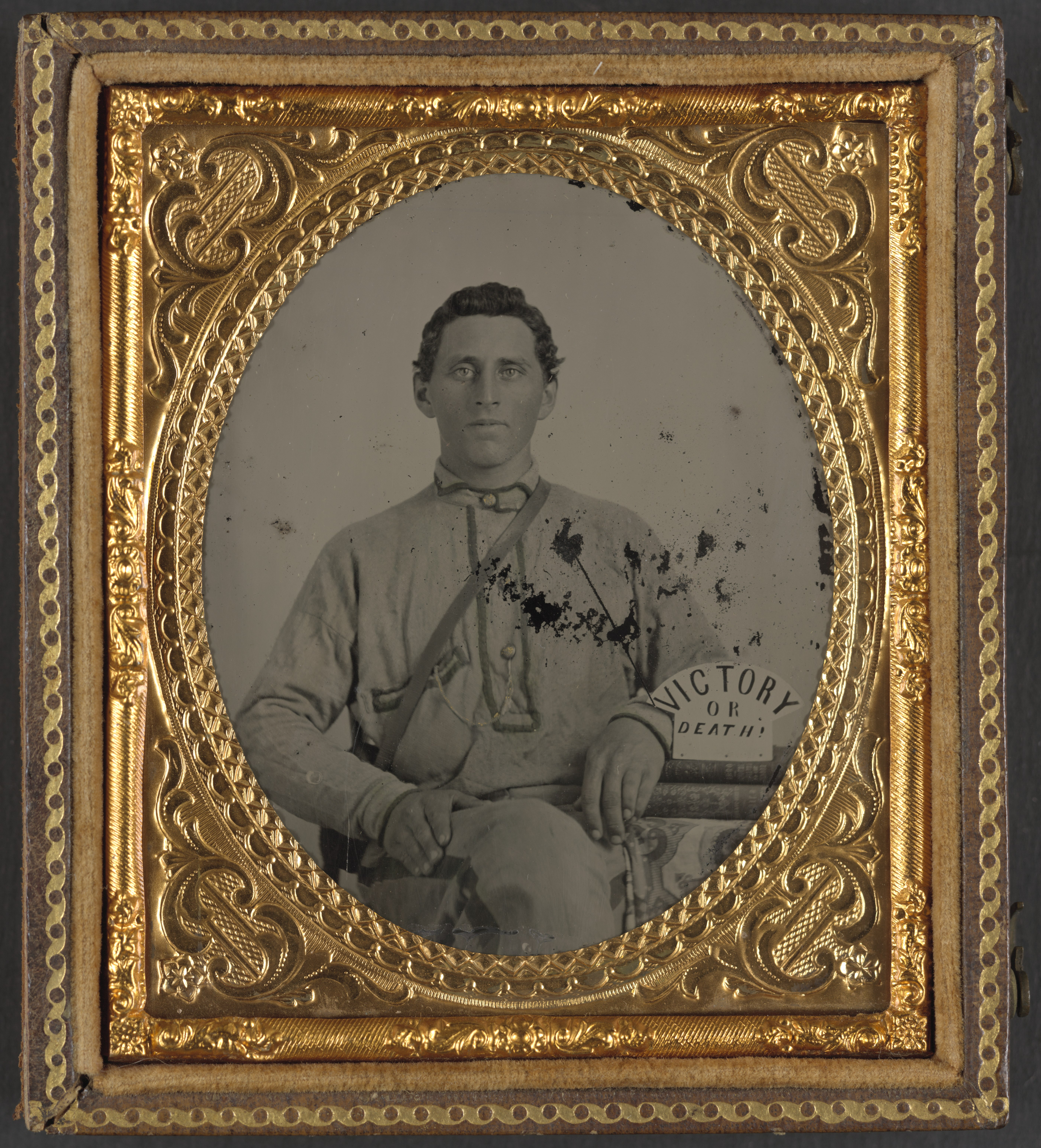 Title: Private Silas A. Shirley of Co. H, 16th Mississippi Infantry Regiment, with books and sign reading Victory or Death! Abstract/medium: 1 photograph : sixth-plate ambrotype, hand-colored ; 9.5 x 8.4 cm (case)